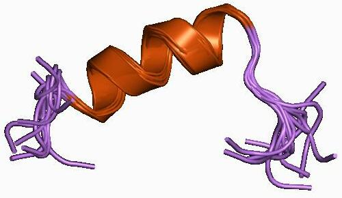 Cartoon representation of the molecular structure of protein registered with 1byy code.